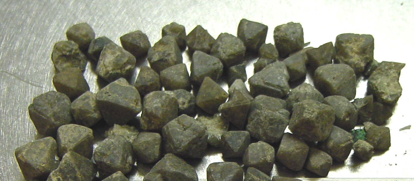 Northupite octahedra, locality not given. Mineral collection of Bringham Young University Department of Geology, Provo, Utah. Photograph by Andrew Silver. BYU index 6- 9037, MgCO_3-Na_2CO_3-NaCl.